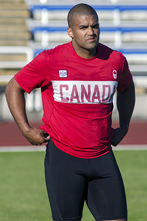 Picture of Curtis Moss, men's javelin thrower.